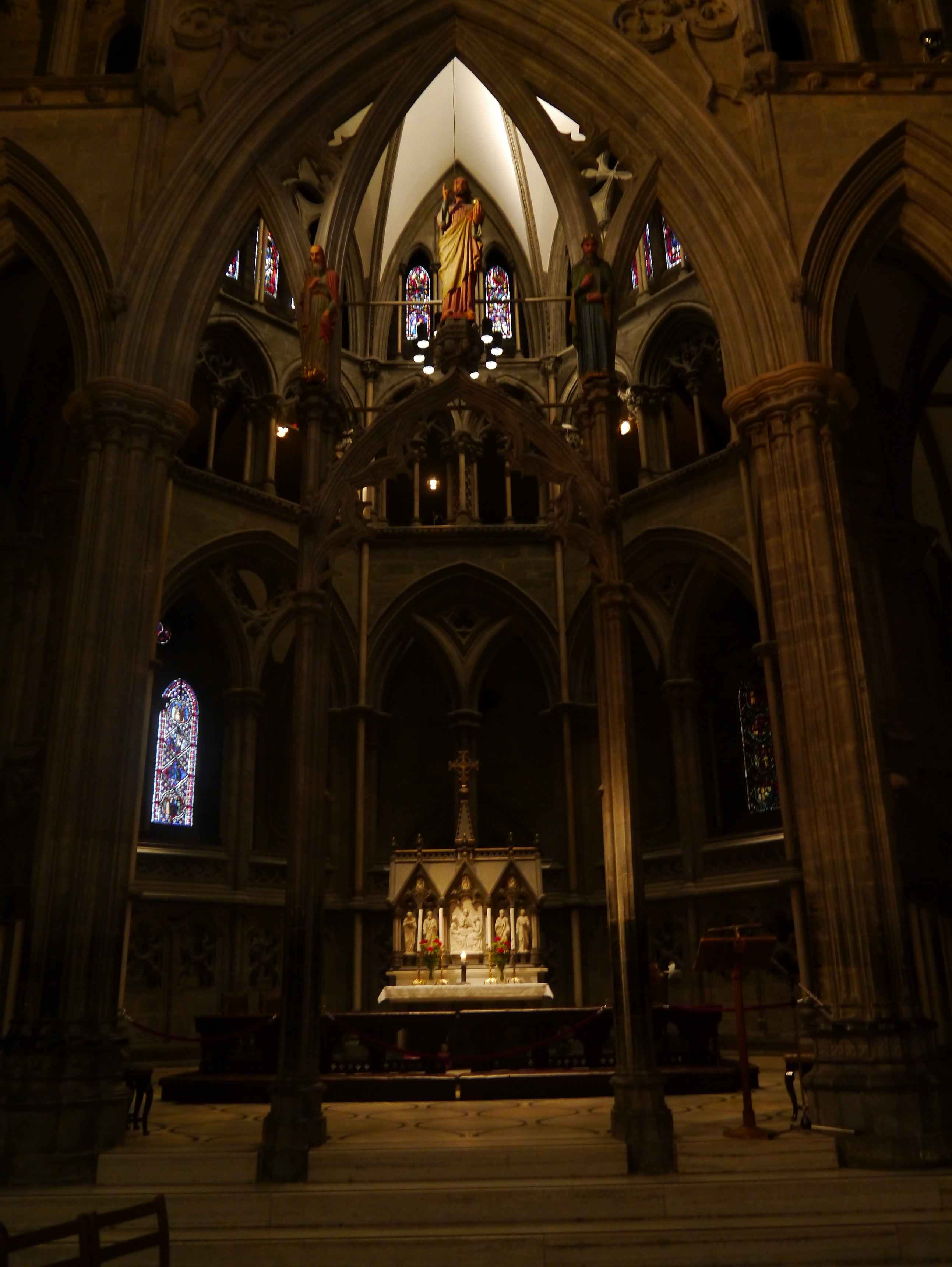 Octagon of Nidaros Cathedral, Trondheim, Sör-Tröndelag County, Central Norway